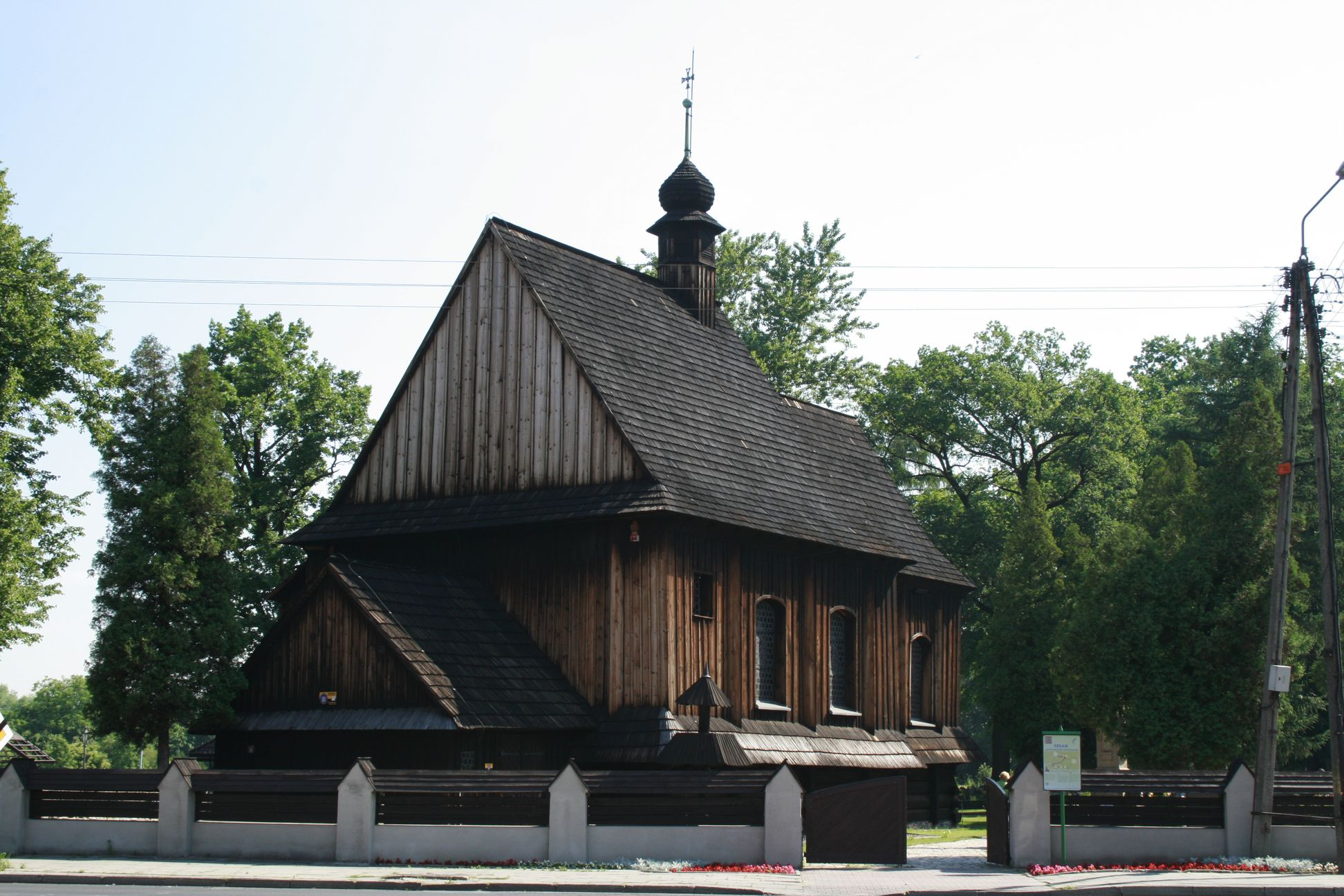 The wooden graveyard small church St. Valentine's from the XVI/XVII turn of the age in Bieruń